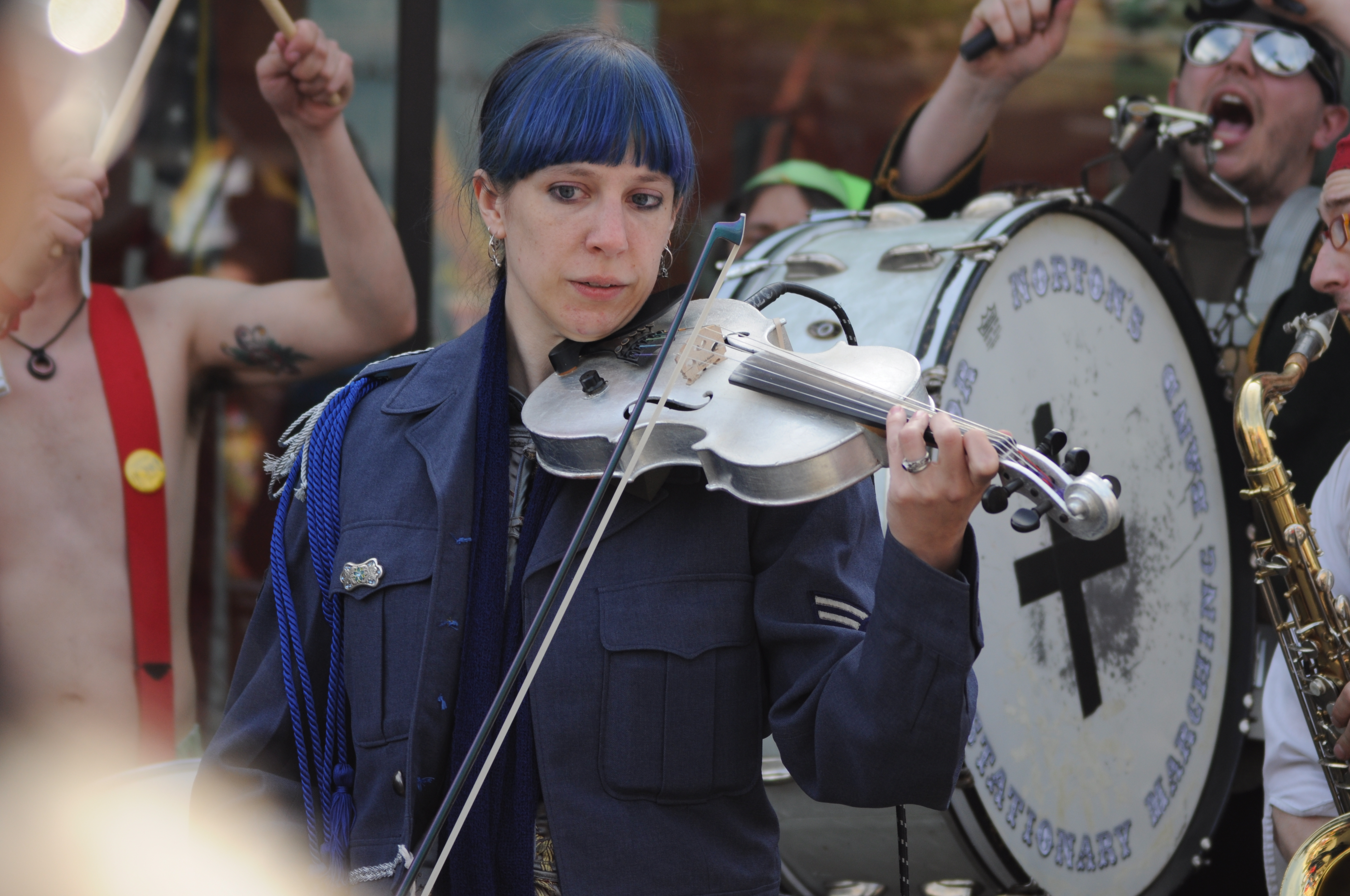 Emperor Norton's Stationary Marching Band playing at Honk Fest West, West Seattle, Seattle, Washington.